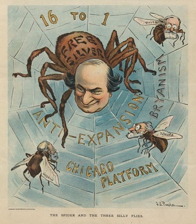 "The spider and the three silly flies," by J.S. Pughe. October 10, 1900.